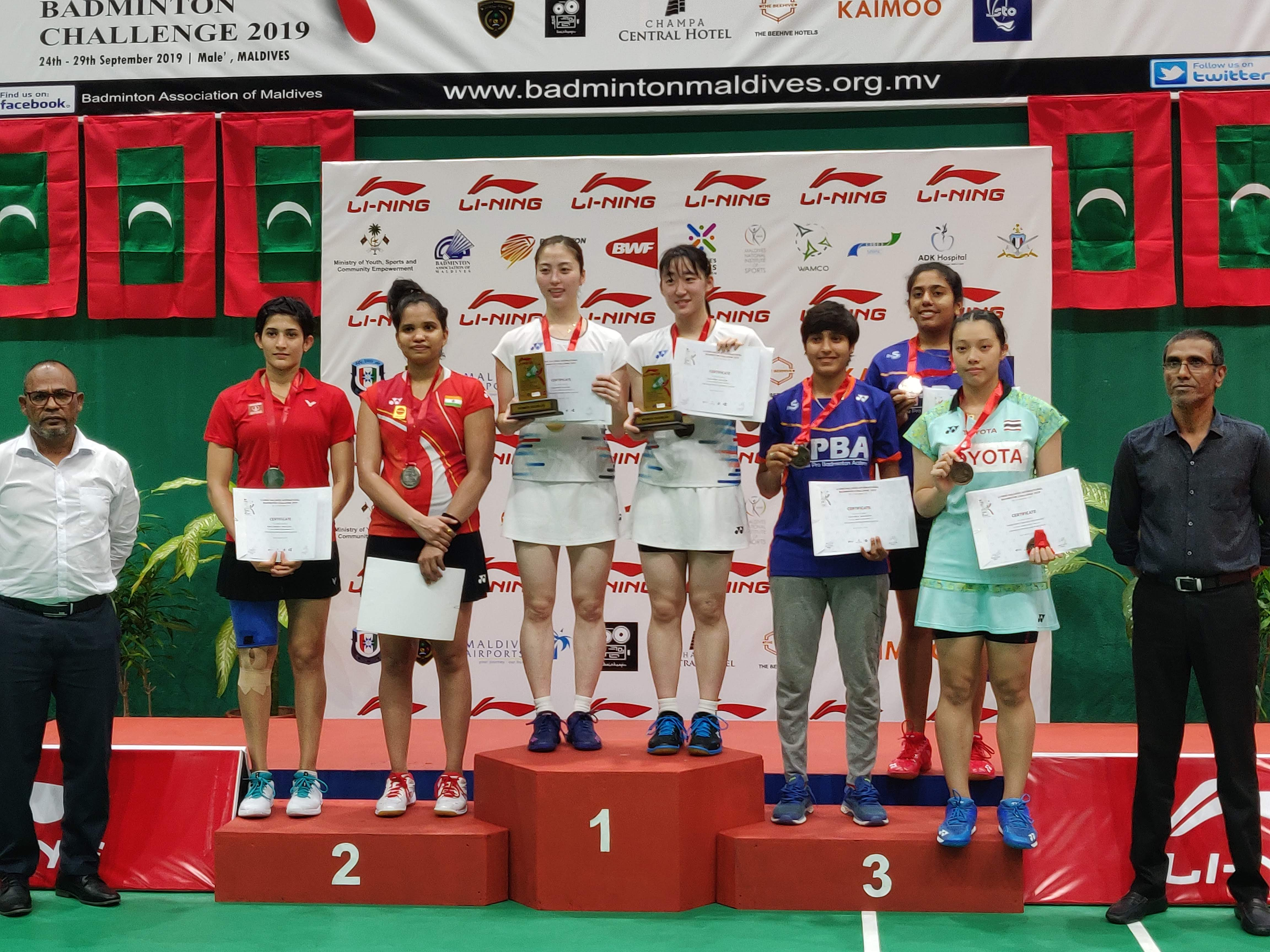 Shikha at the Maldives International 2019 Medal Ceremony